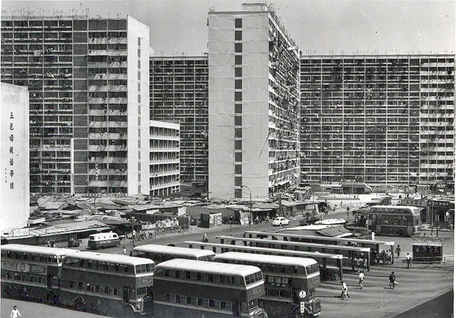 Previous Ngau Tau Kok Bus Terminal In the background: Blocks, 5, 6, 7 of Lower Ngau Tau Kok (I) Estate